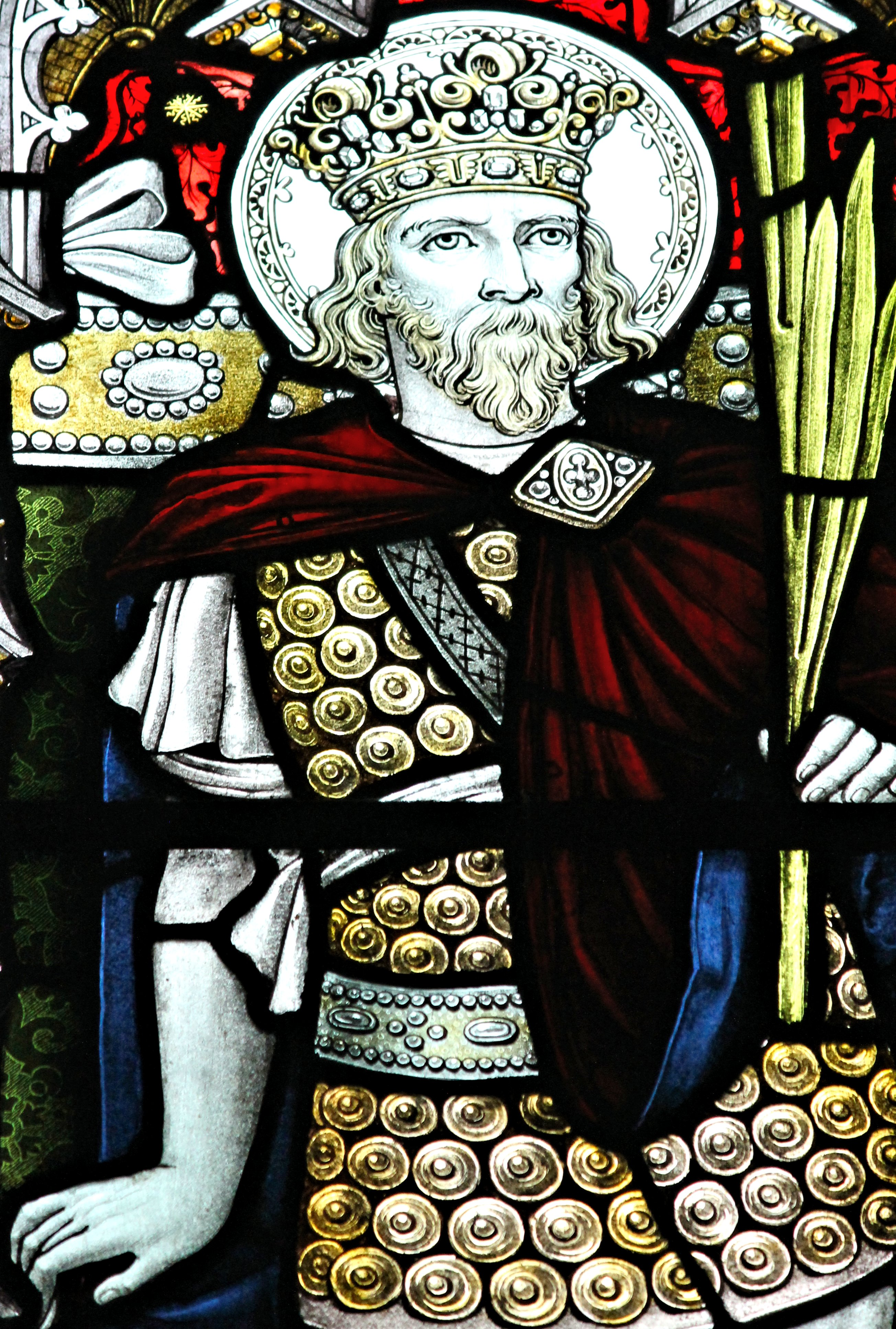 Photograph taken in Llandaf Cathedral, Cardiff, South Wales. King Tewdrig - king and saint who led his son's army against an intruding Saxon force.